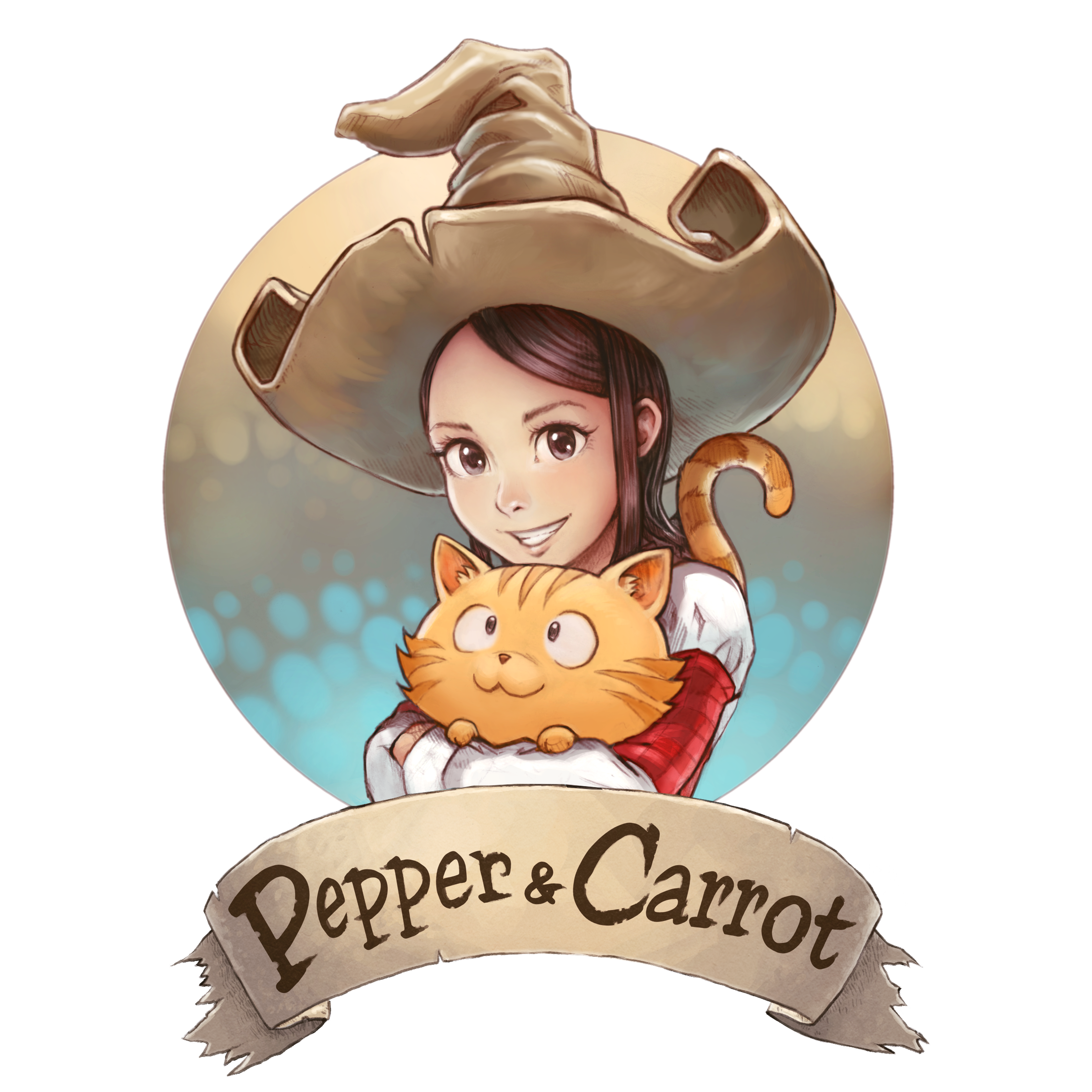 New logo of David Revoy's webcomic series Pepper&Carrot.